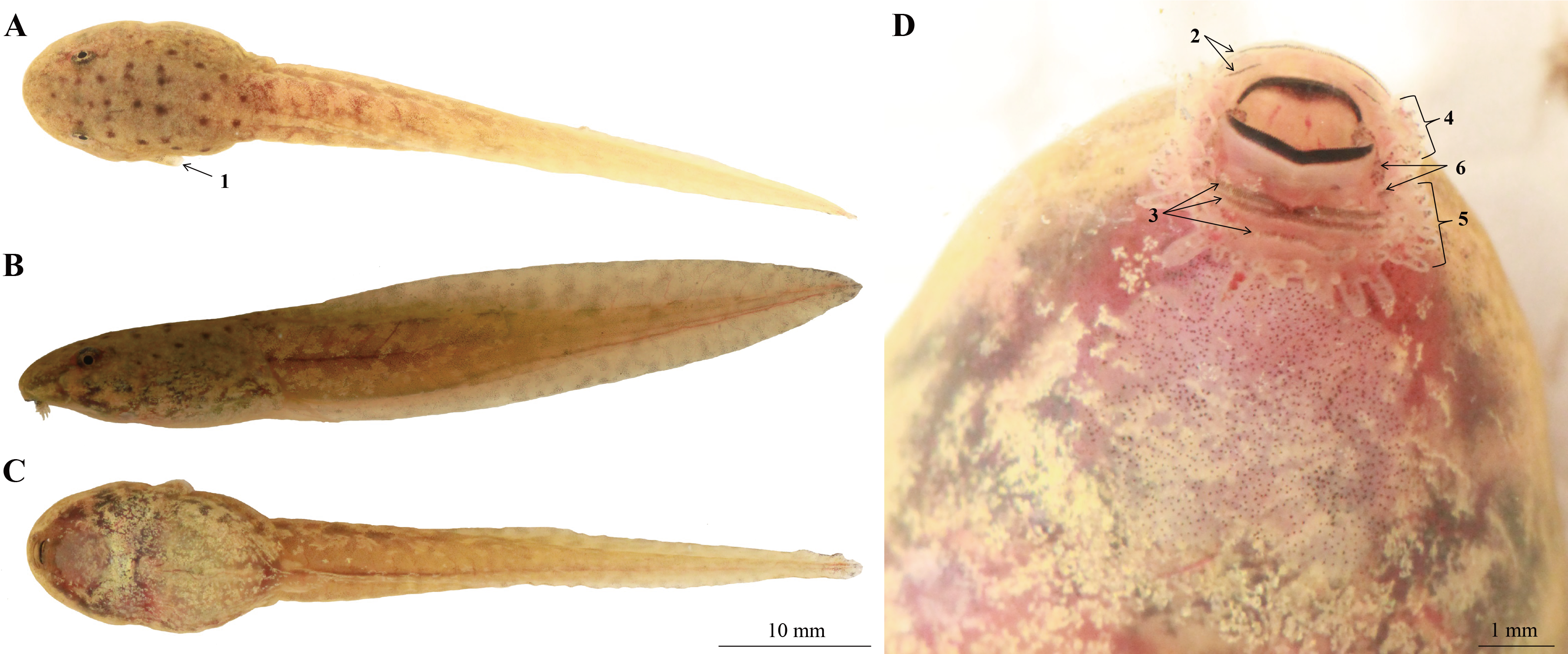 (A) Dorsal view. (B) Lateral view. (C) Ventral view. (D) Mouth structure. 1, Spiracle; 2, lower keratodonts; 3, upper keratodonts; 4, labial papillae on lower lips; 5, labial papillae on upper lips; 6, additional tubercles at the angles of mouth. Photographed by Shize Li.